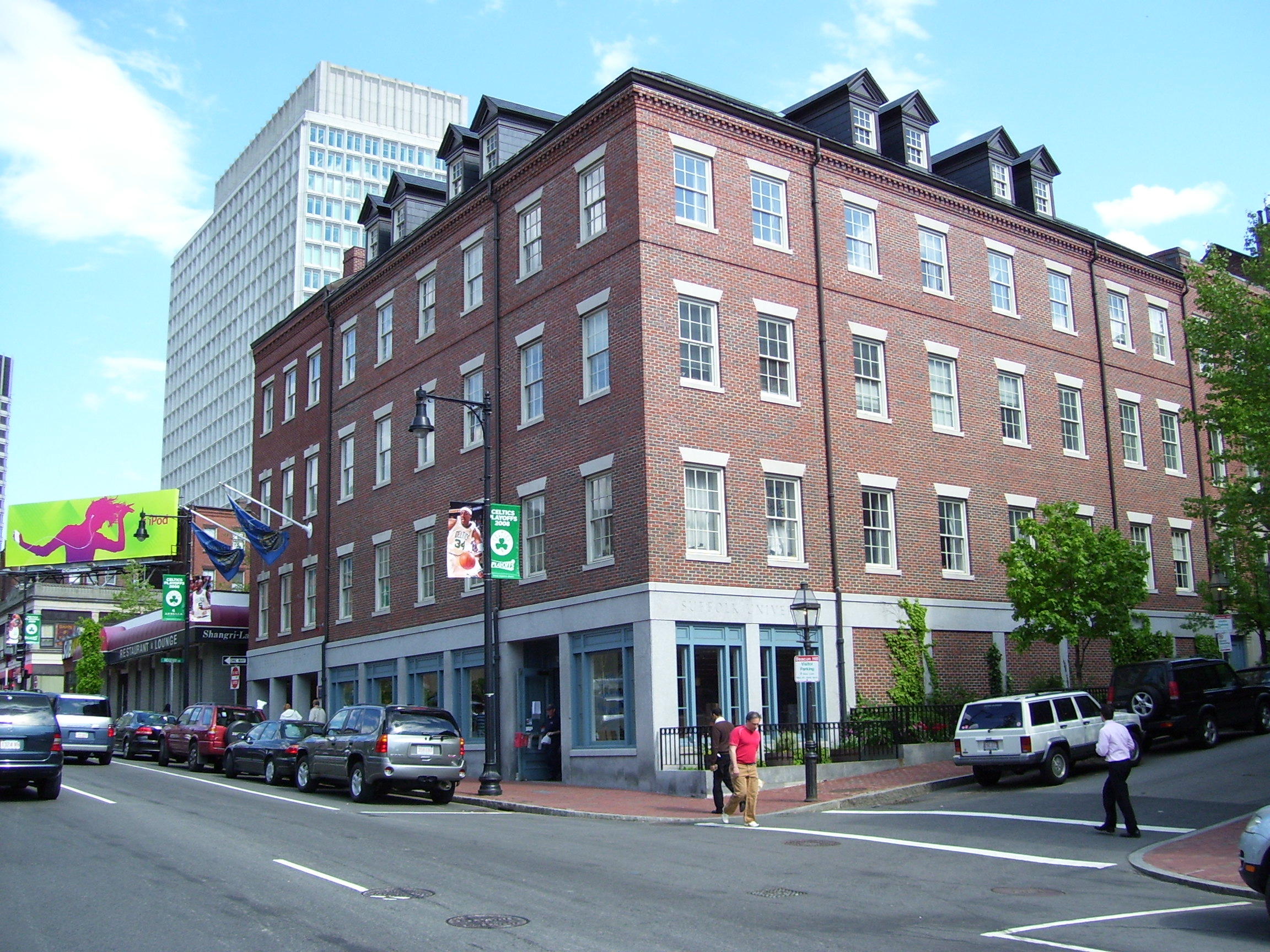 This is my 2008 photo of the Ridgeway Building at Suffolk University on Cambridge Street in Boston, Massachusetts.